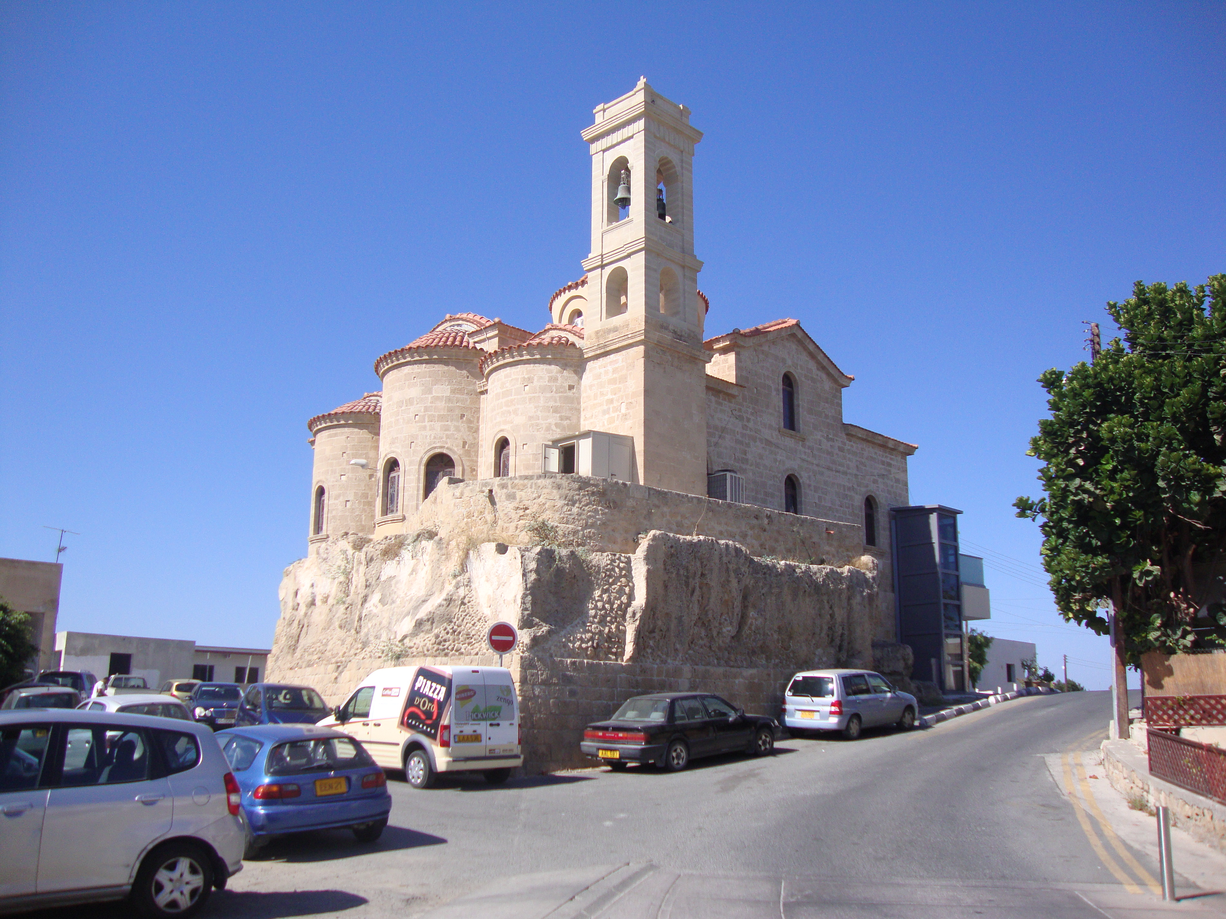 Panagia Theoskepasti Church, Paphos (Cyprus)